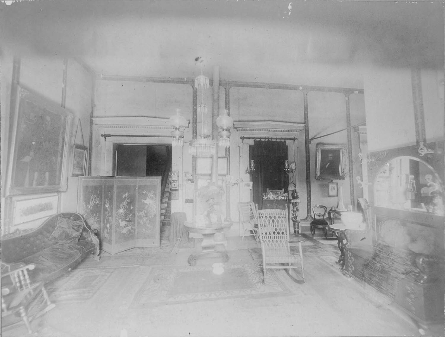 Interior of Polk Place was taken near the time of Sarah Polk’s death in 1891.